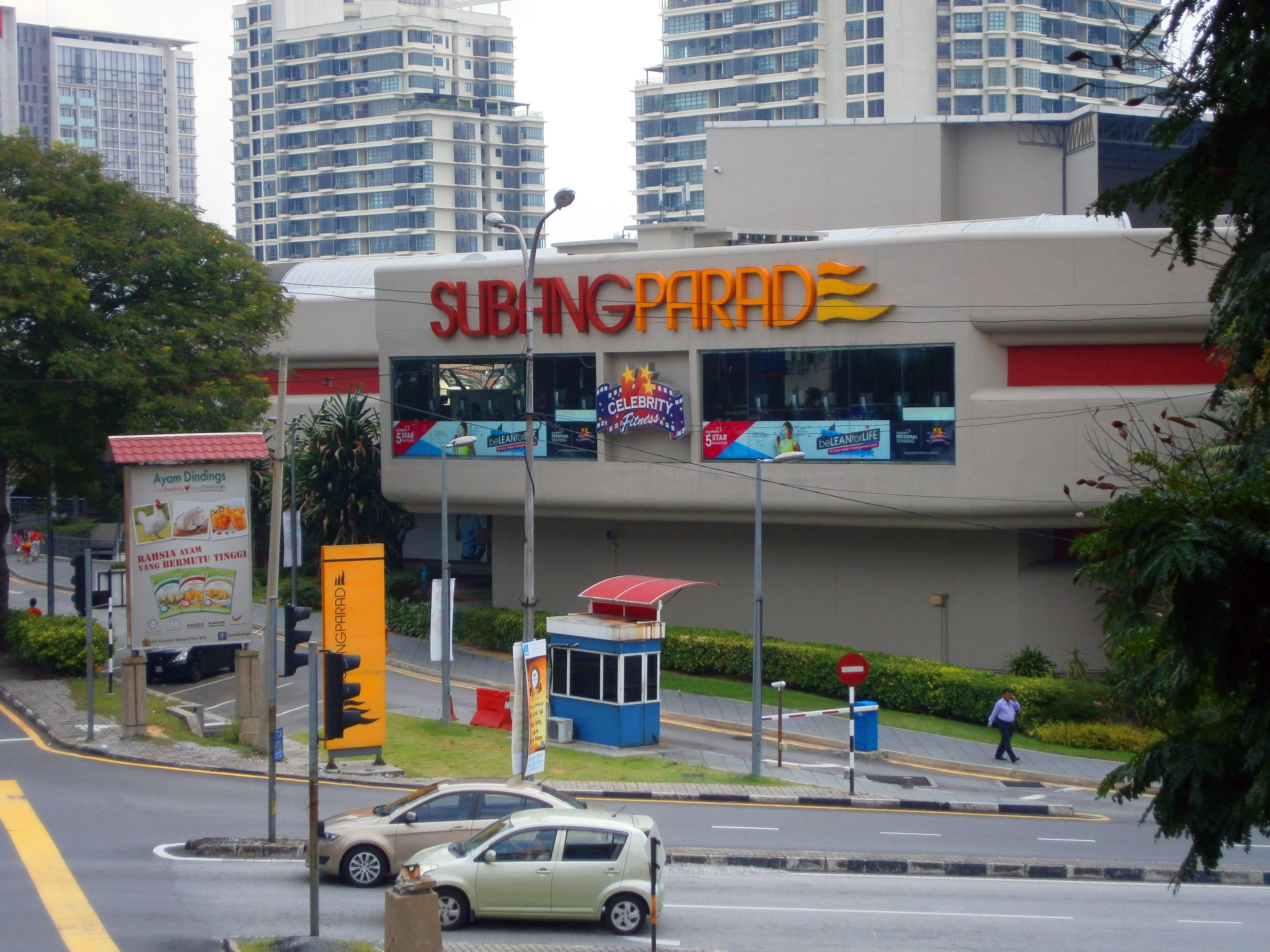 Subang Parade Shopping Centre facing NW, Subang Jaya, Malaysia.